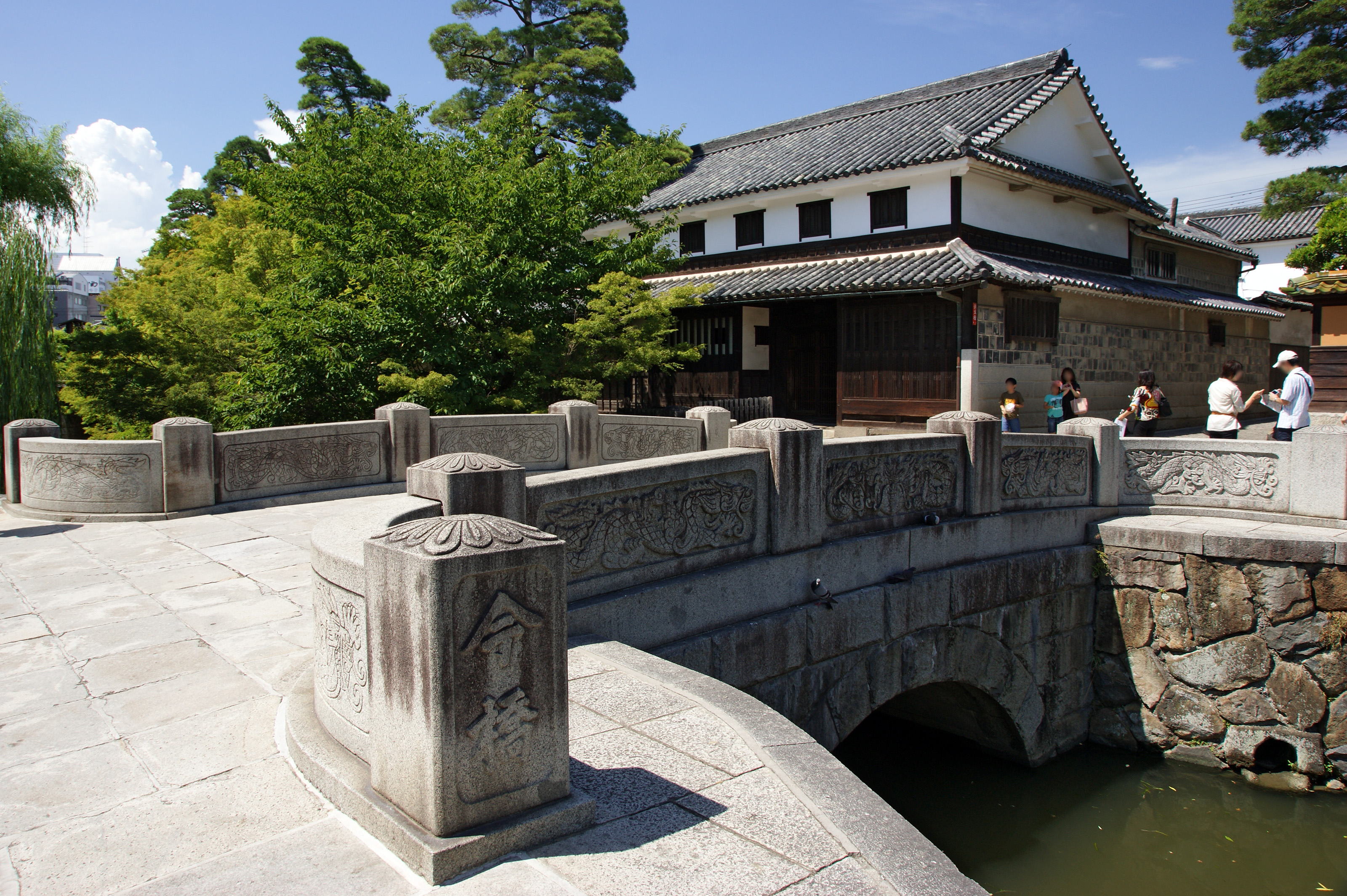 Kurashiki Bikan historical quarter in Kurashiki, Okayama prefecture, Japan